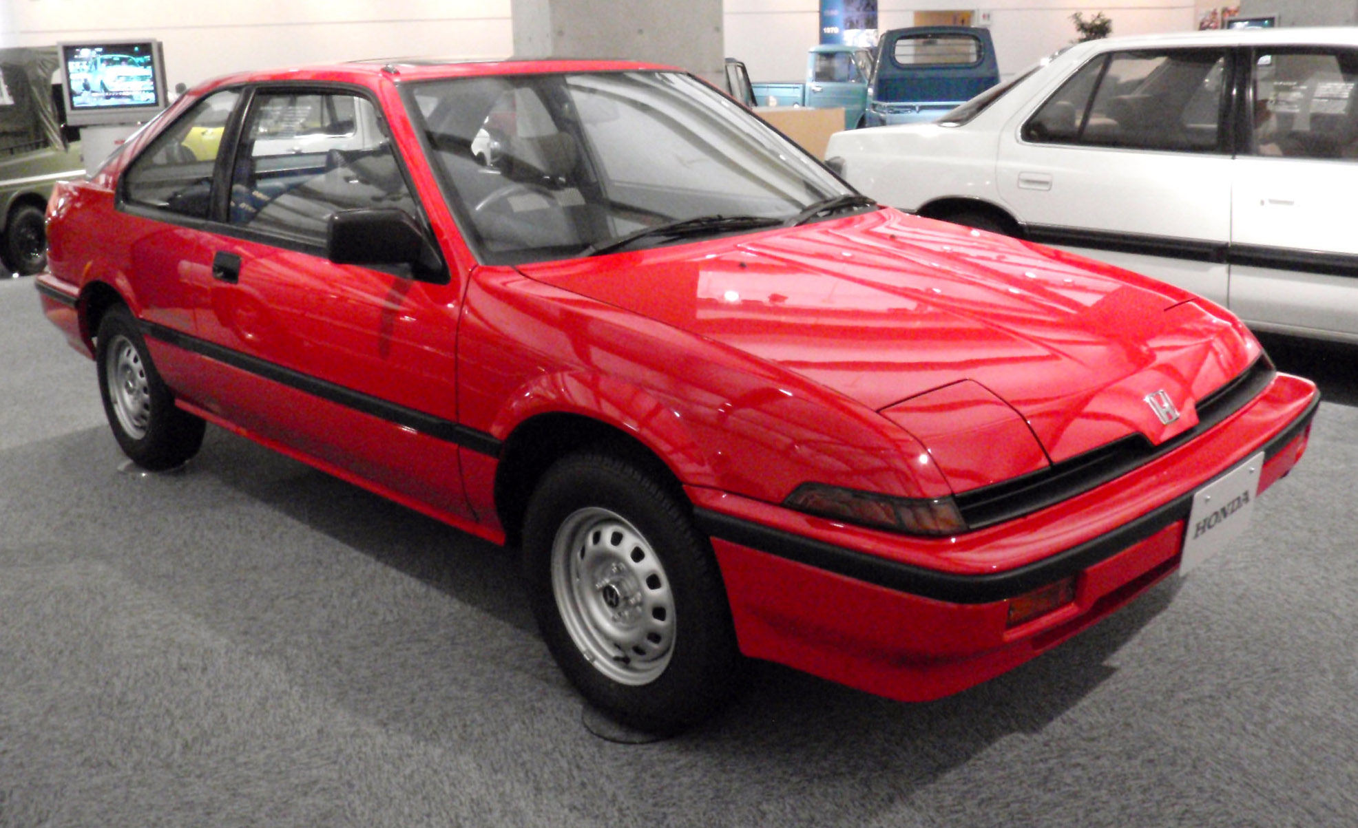 Honda Quint Integra in Honda Collection Hall, Twin Ring Motegi